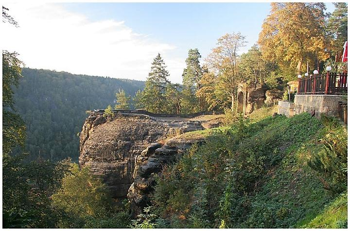 Belvedér observation terrace near the village of Labská Stráň, Děčín District, Czech Republic